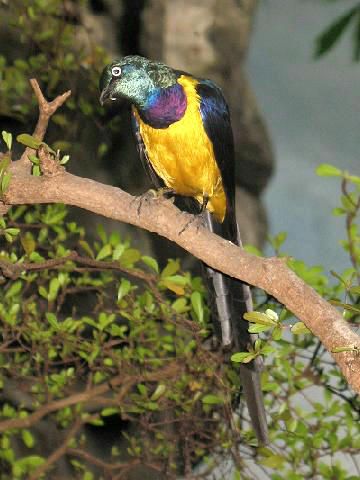 Description: Golden-breasted Starling - Source: own work - Location: Bronx Zoo, New York - Author: self, User:Stavenn